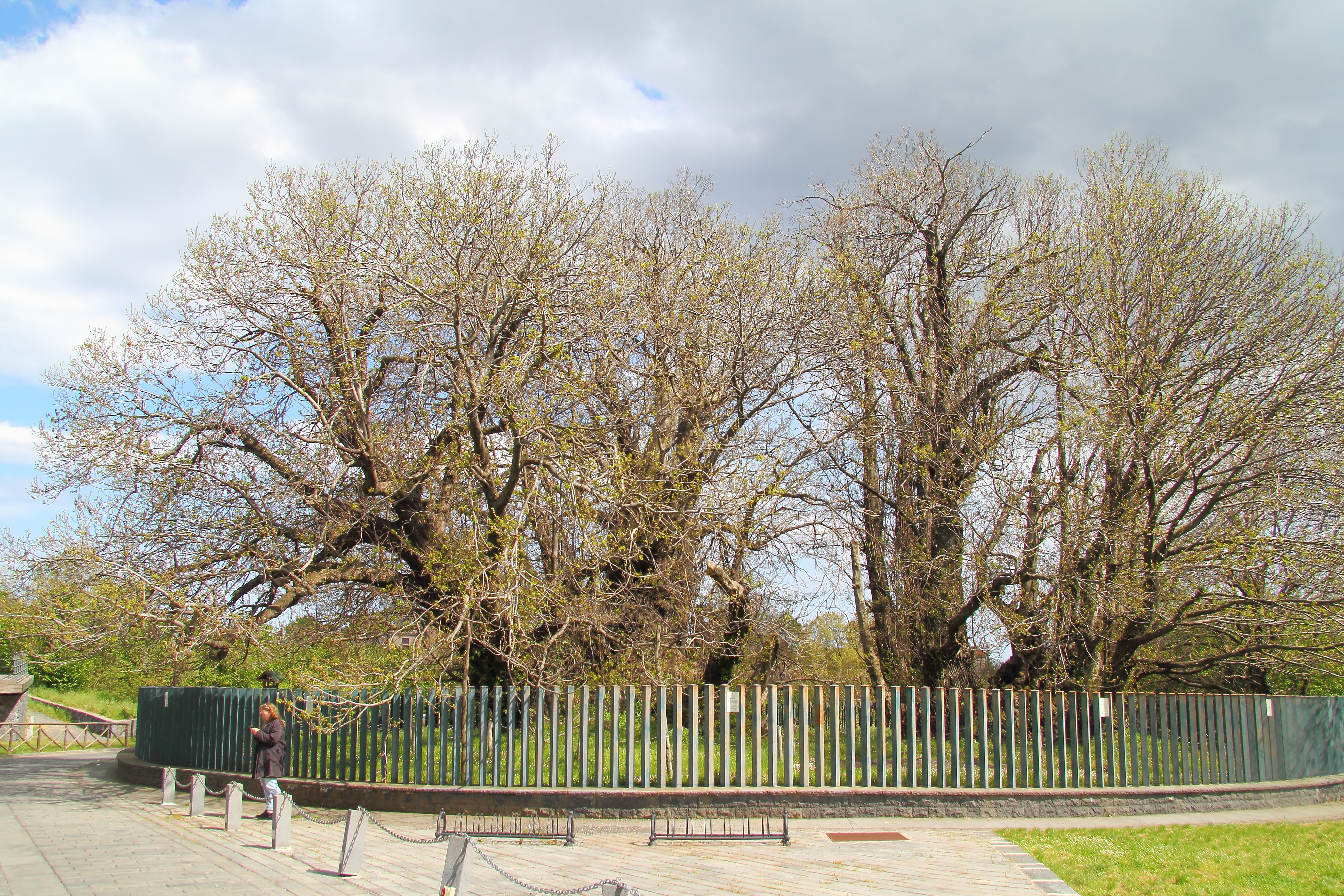 Sant'Alfio, Sicily: Hundred Horse Chestnut